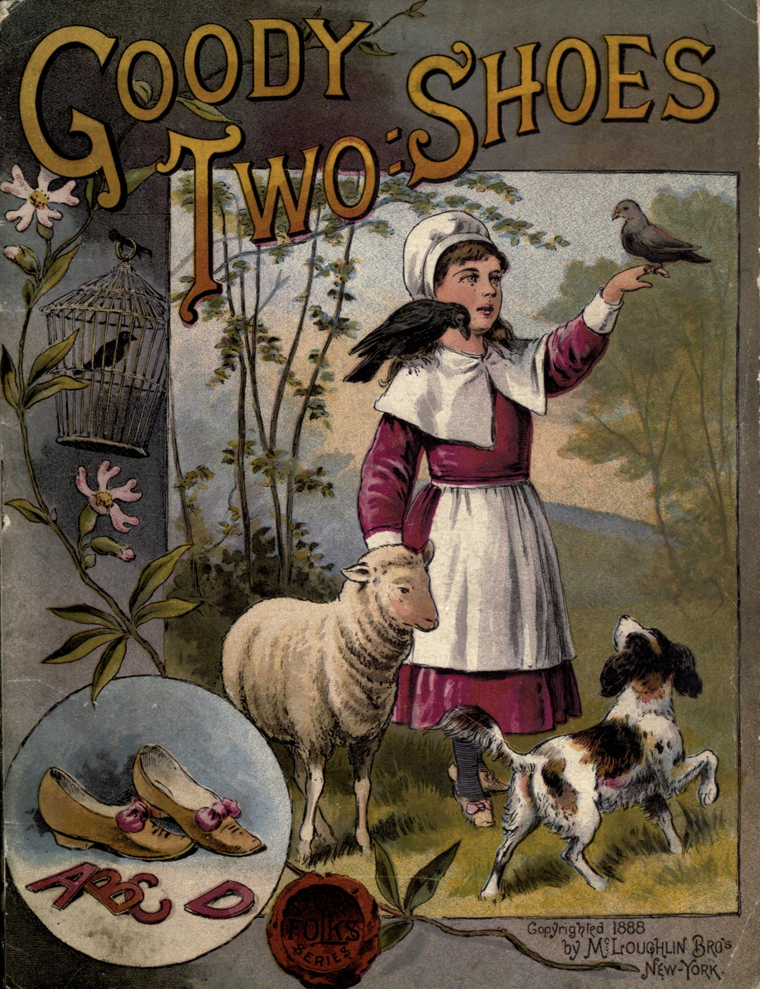 Cover of the 1888 edition of Goody Two-Shoes, published by McLoughlin Bro's. of New York, US.